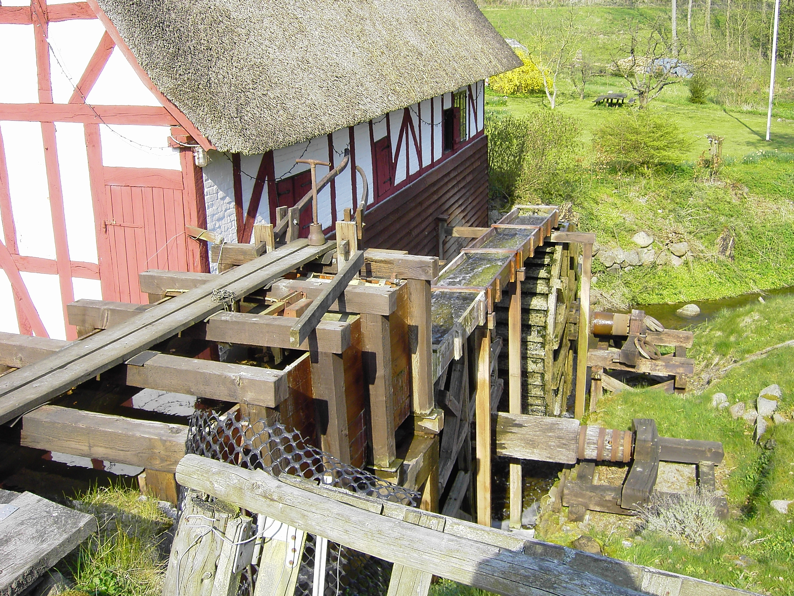 Vejstrup Watermill